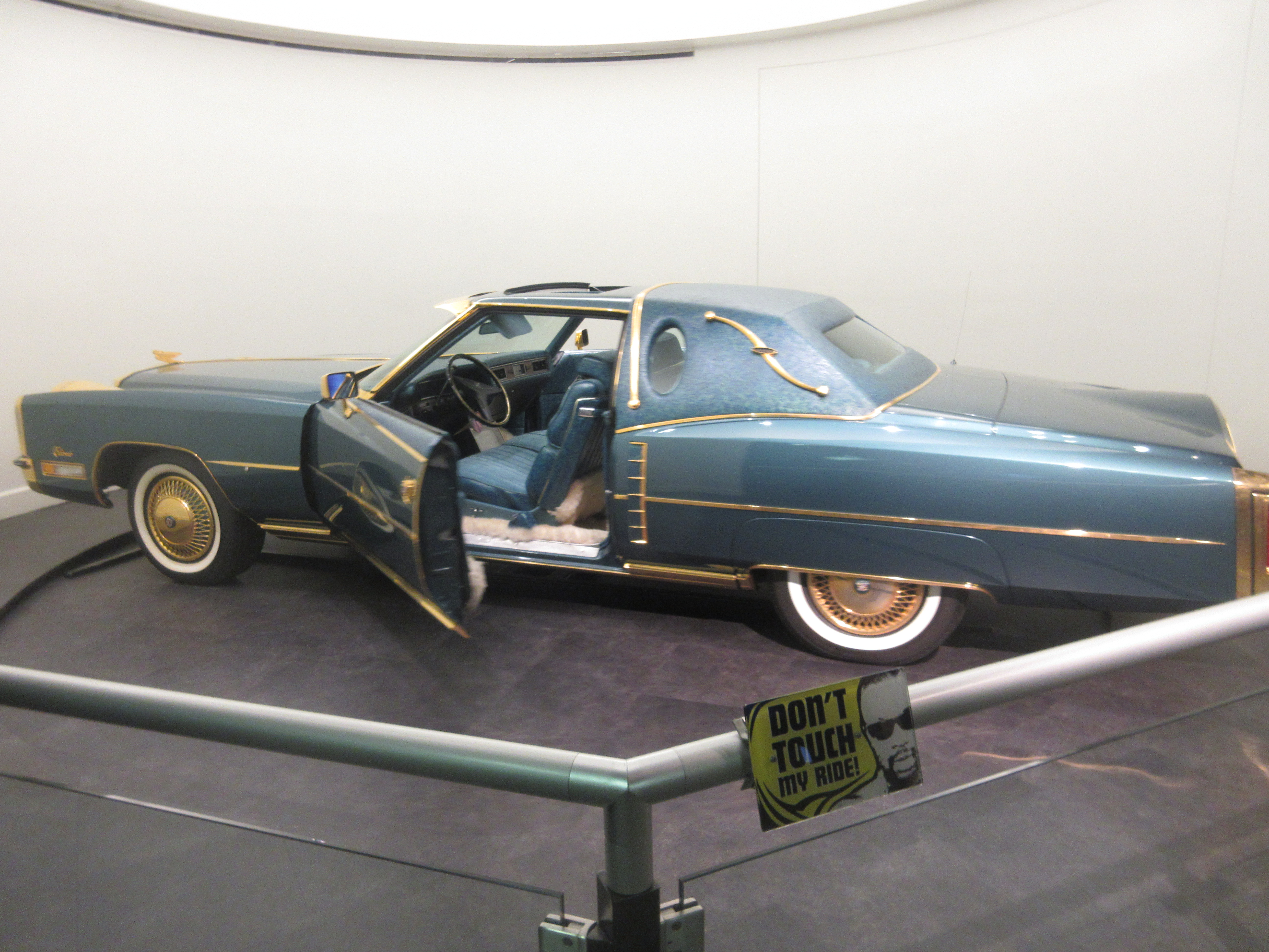 Custom Cadillac El Dorado built for Isaac Hayes, Stax Museum of American Soul Music.